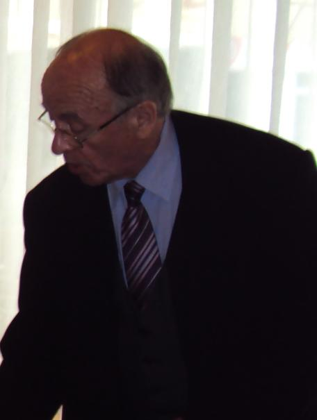 Kovacs Levente - director, decan (University of Arts, Marosvásárhely)